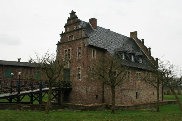 Cultural heritage monument No. 99 in Hückelhoven